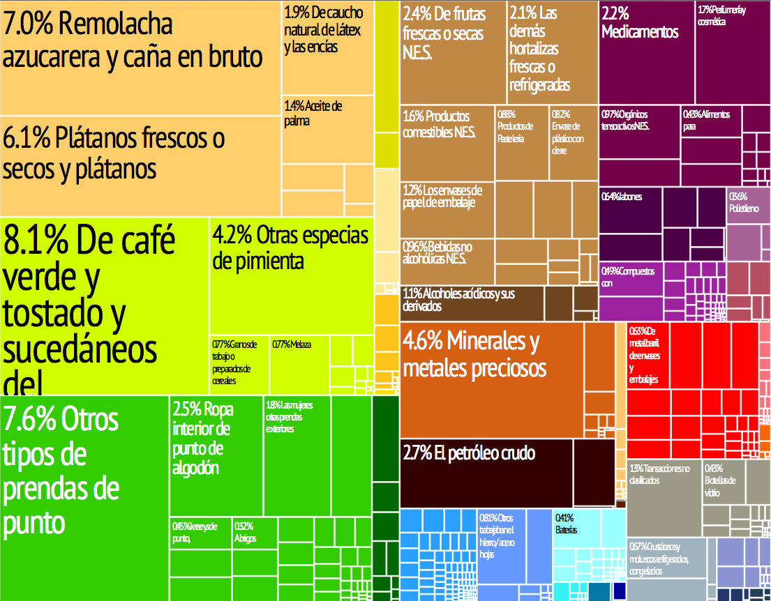 Representación gráfica de los productos de exportación del país en 28 categorías codificadas por color. Cada recuadro de color representa un producto y su tamaño es proporcional a la participación que ese producto representa dentro del total de las exportaciones del país.